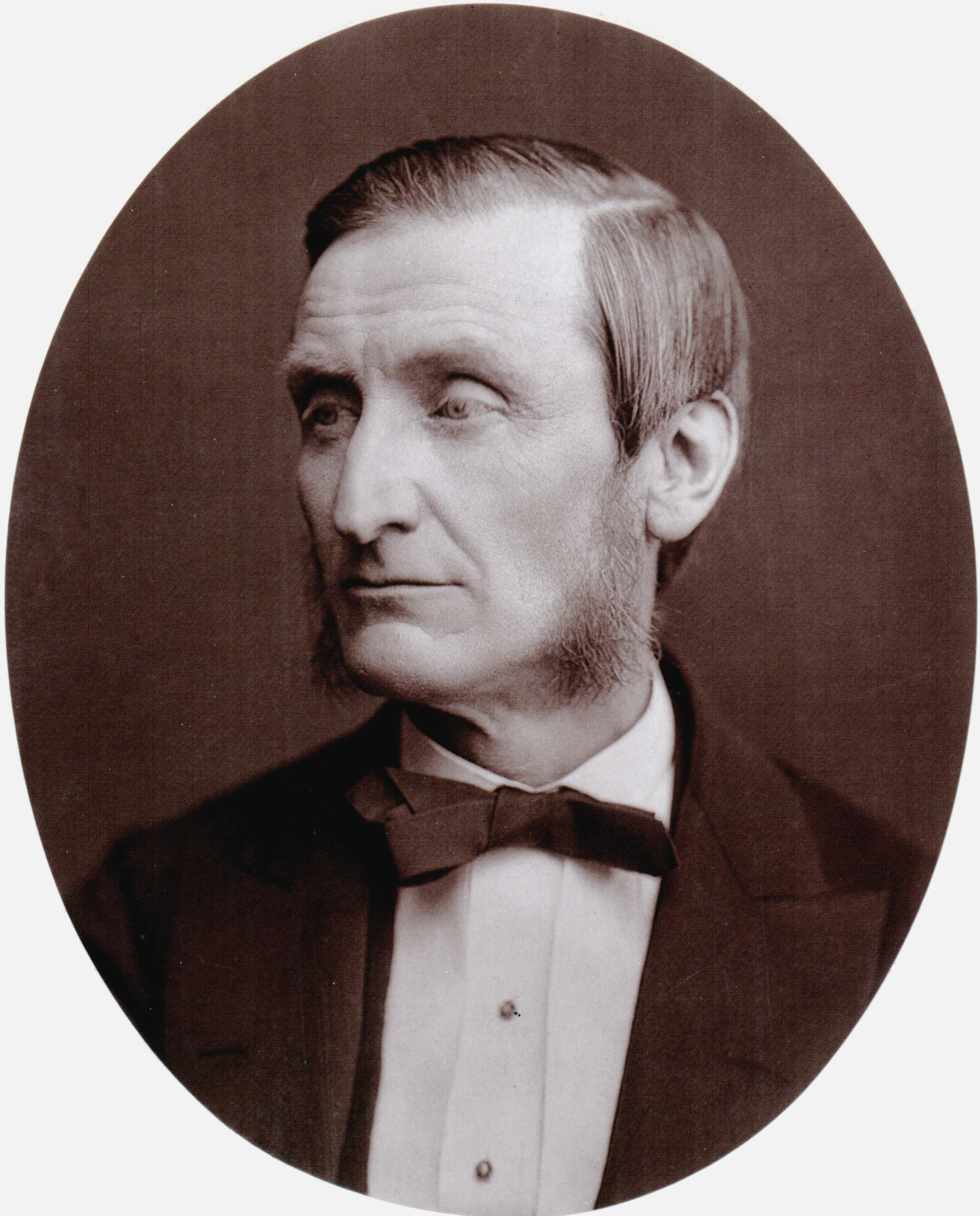 Creator/Photographer: Unidentified photographer Medium: Medium unknown Dimensions: 11.3 cm x 9.1 cm Date: 1870s Collection: Scientific Identity: Portraits from the Dibner Library of the History of Science and Technology - As a supplement to the Dibner Library for the History of Science and Technology's collection of written works by scientists, engineers, natural philosophers, and inventors, the library also has a collection of thousands of portraits of these individuals. The portraits come in a variety of formats: drawings, woodcuts, engravings, paintings, and photographs, all collected by donor Bern Dibner. Presented here are a few photos from the collection, from the late 19th and early 20th century. Persistent URL: [1] Repository: Smithsonian Institution Libraries Accession number: SIL14-G002-12